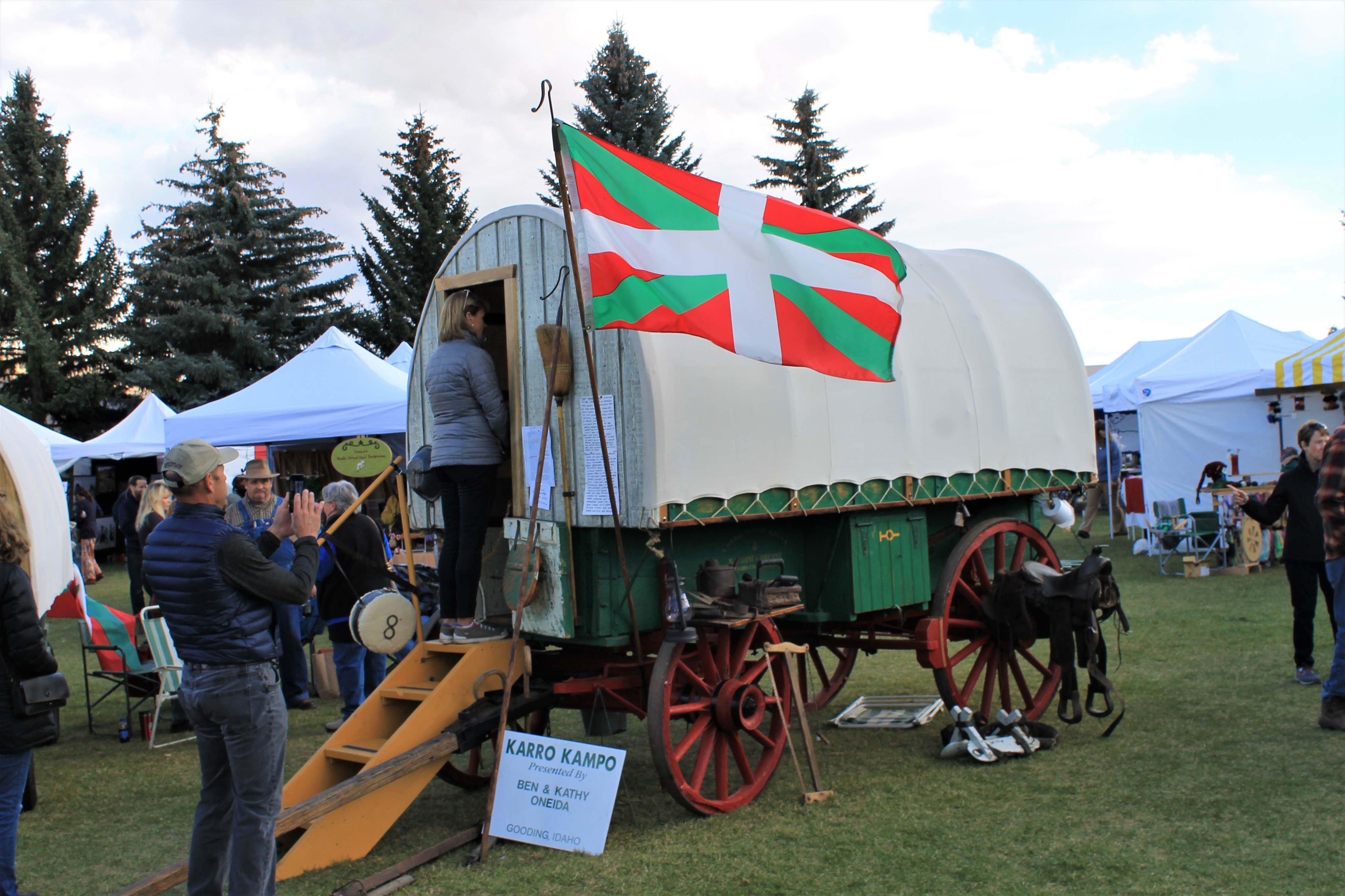 This Basque Wagon was displayed in Hailey as part of the Trailing of the Sheep Festival.